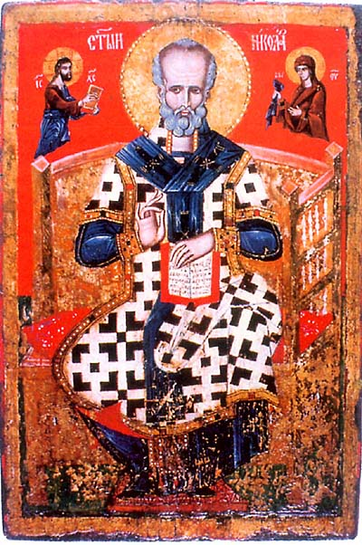 Religious icon, tempera on wood 59 x 39,2 cm, Andrija Raičević